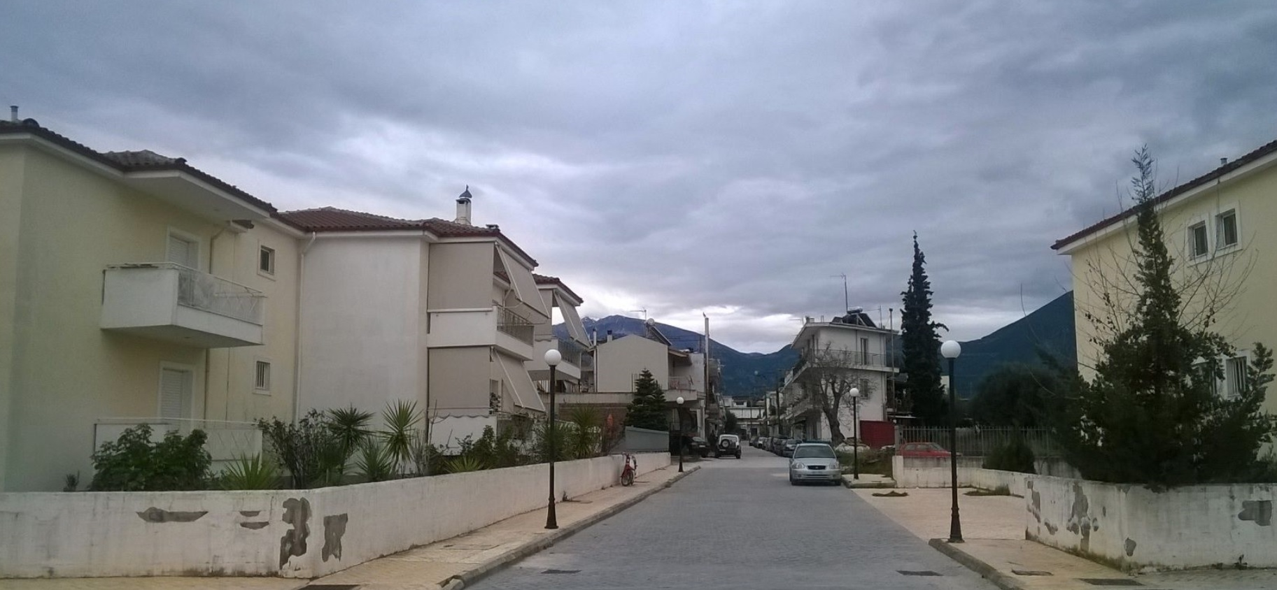 Partial view of "PATRAS XIV", a labour houses neighborhood at Lefka, Patras, Achaia, Greece.